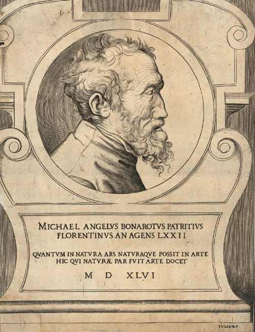 Giulio Bonasone: Portrait of Michelangelo Buonarroti at 72 (1546).